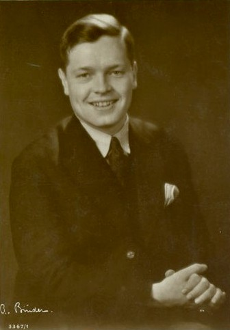 Portrait of German actor Hans Brausewetter (1899–1945) taken by Alexander Binder.